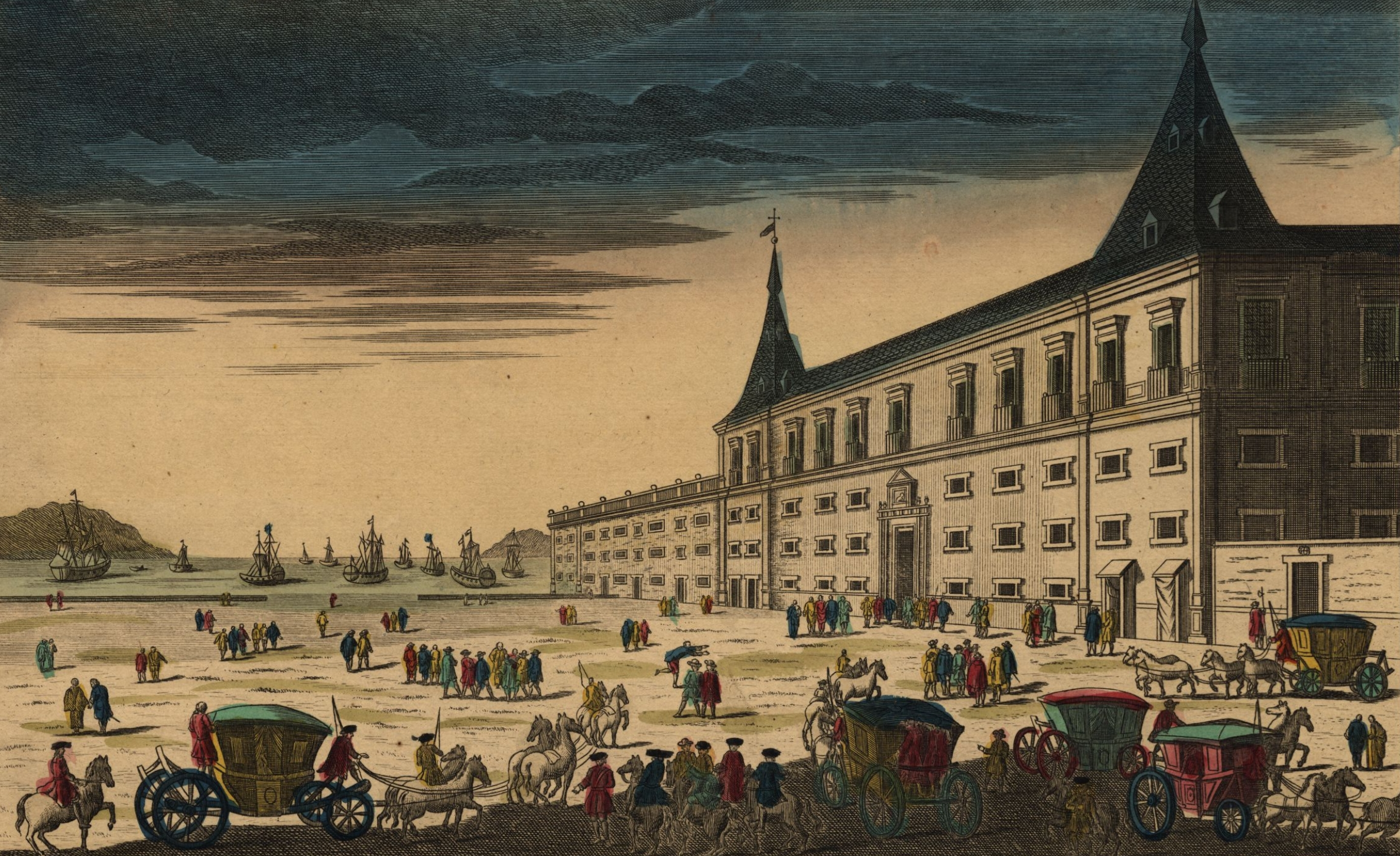 The Palace of the Dukes of Aveiro in Lisbon, demolished in 1759.